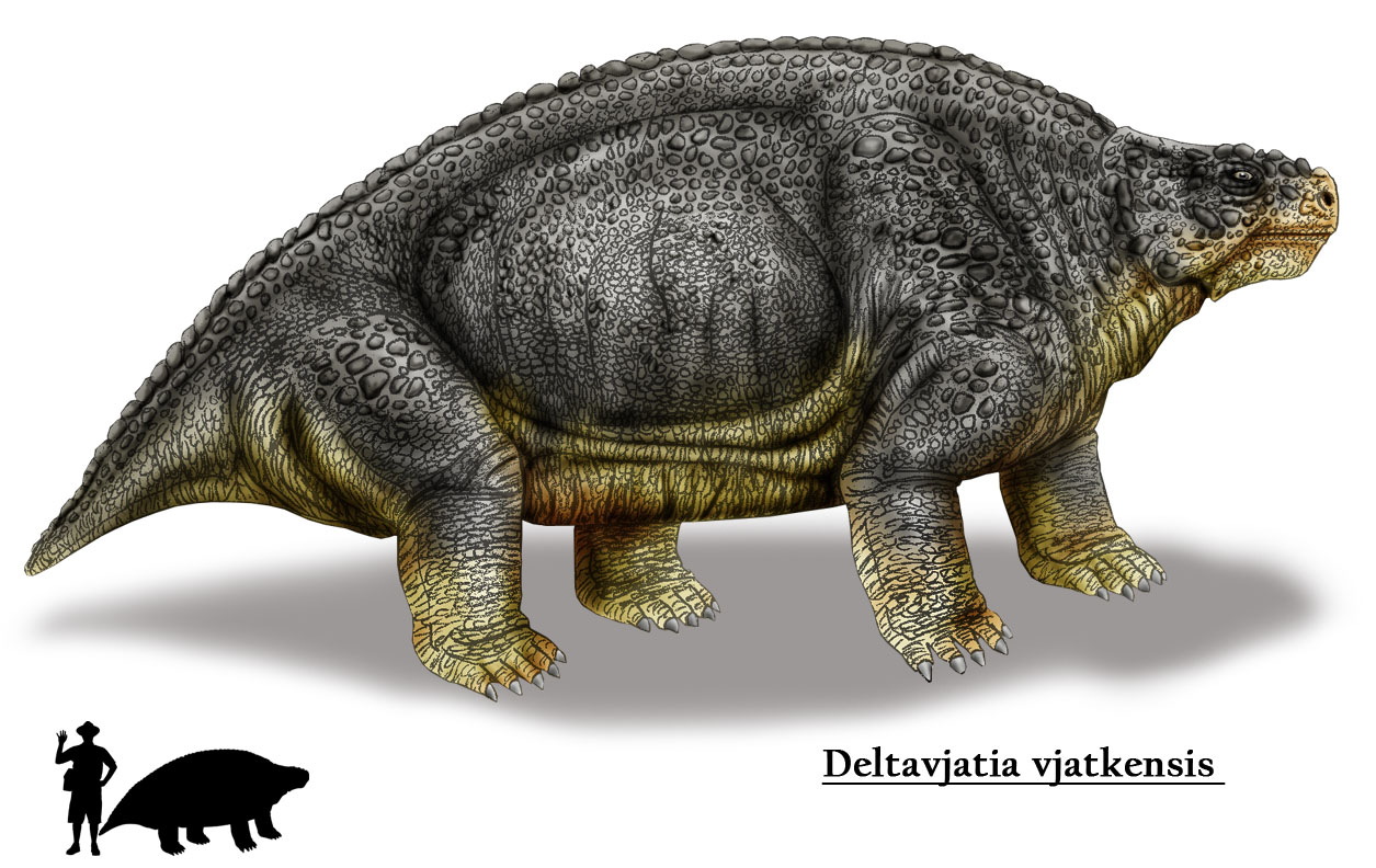 A reconstruction of Deltavjatia vjatkensis